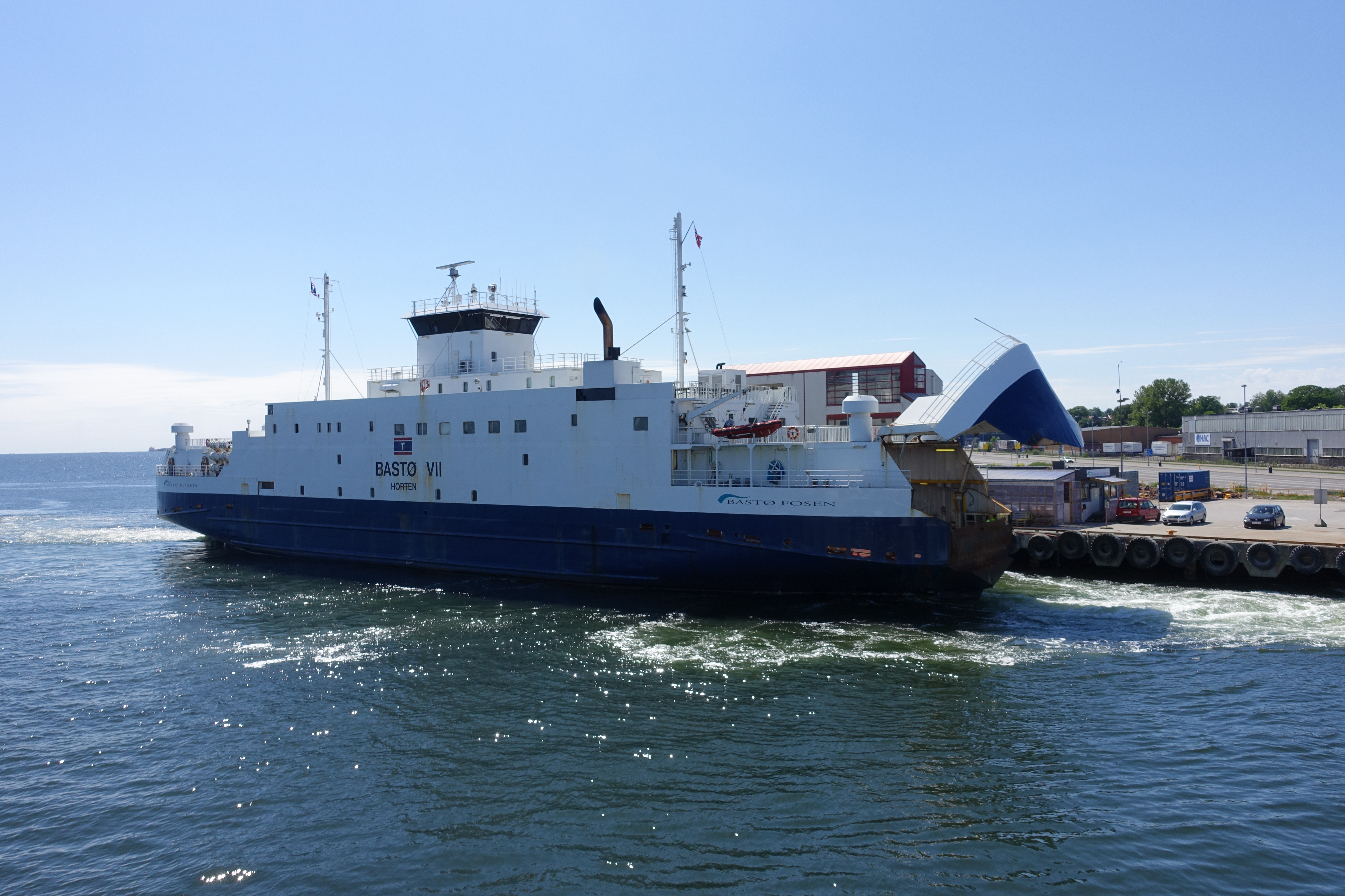 The double-ended car and passenger ferry MF Bastø VII (previous name Austerheim, Bjørnefjord, Boknafjord and Bastø IV) in Horten, Norway